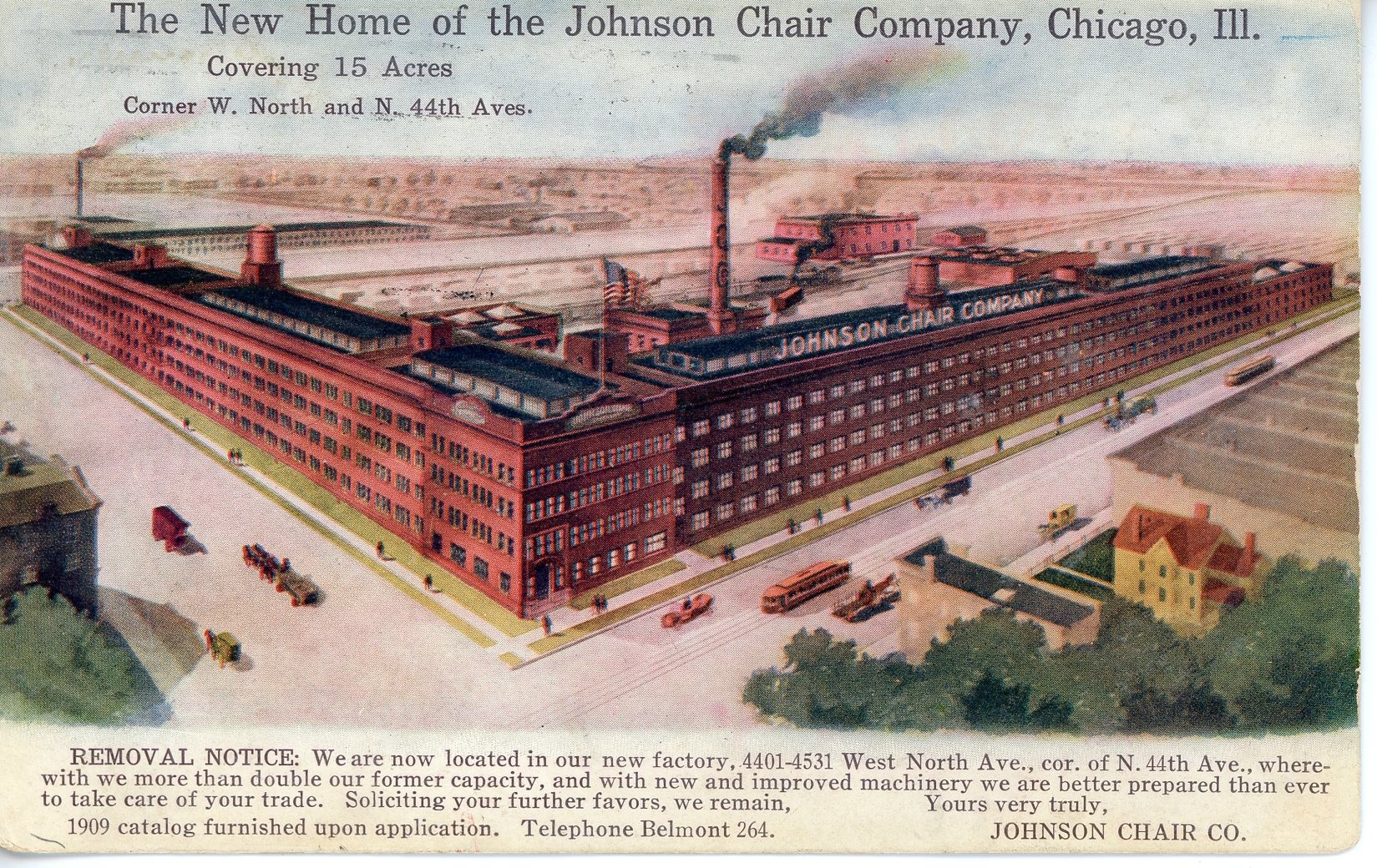 Image from a postcard, circa 1909, showing the new factory of the Johnson Chair Company, Chicago, Illinois.